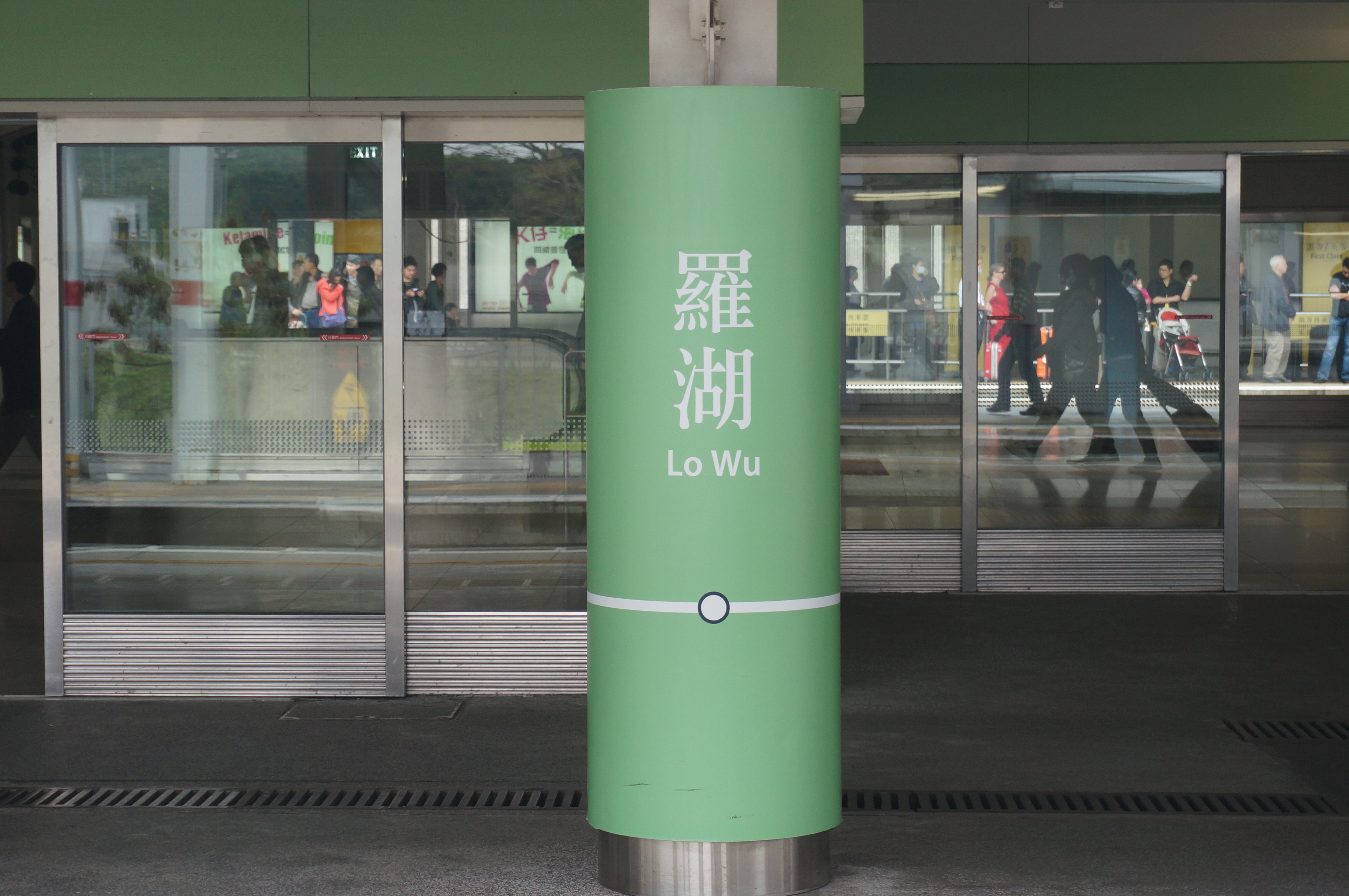 Lo Wu Station platform signage 中文（香港）: 羅湖站港鐵化直式站牌